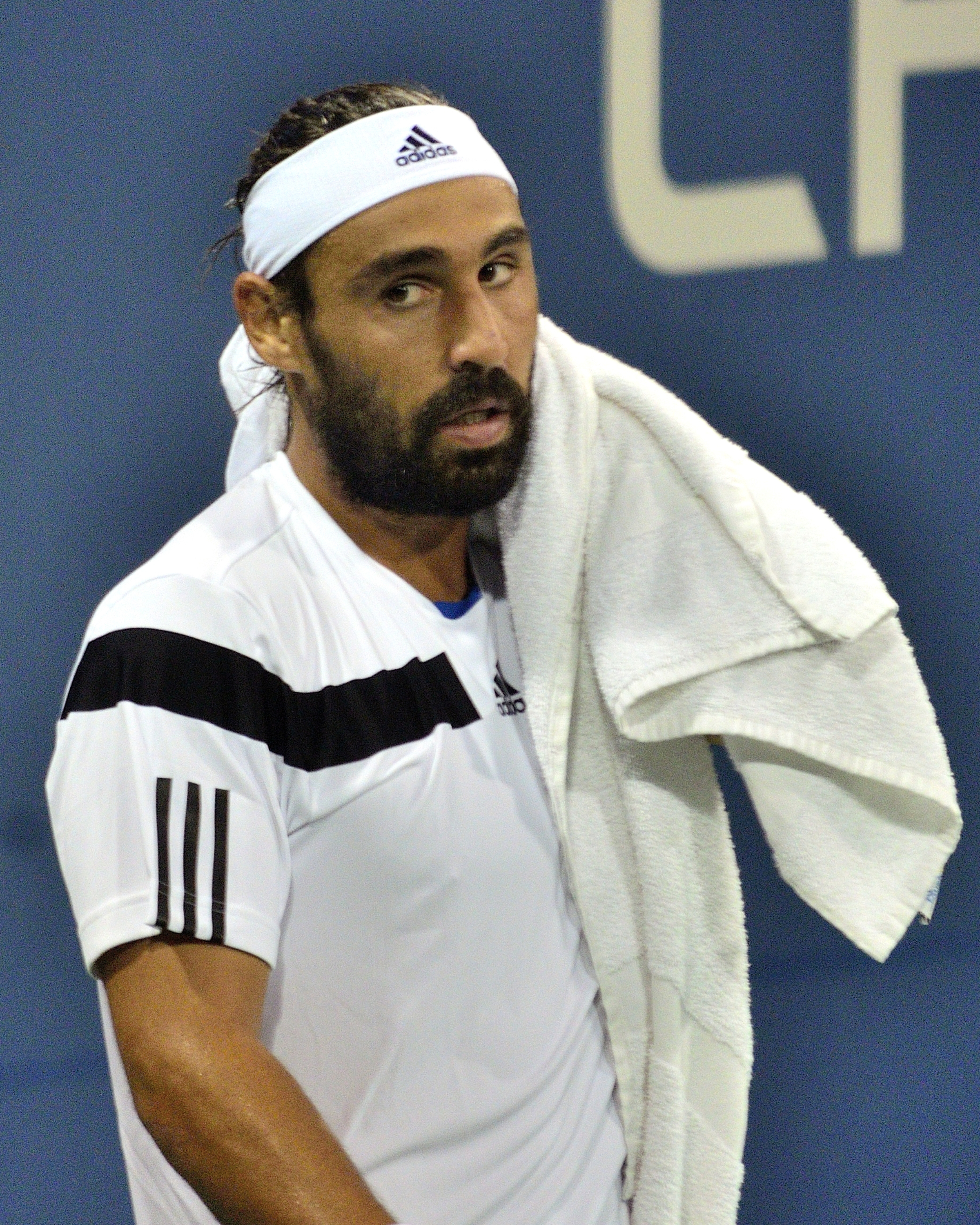 Queens, NY August 30, 2013 Marcos Baghdatis (CYP) def. Kevin Anderson (RSA) Court 17